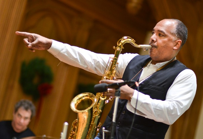 Don Braden (and the Big Funk Band) play at First Night Morris, First Baptist Church, Morristown, New Jersey, Dec. 31, 2011